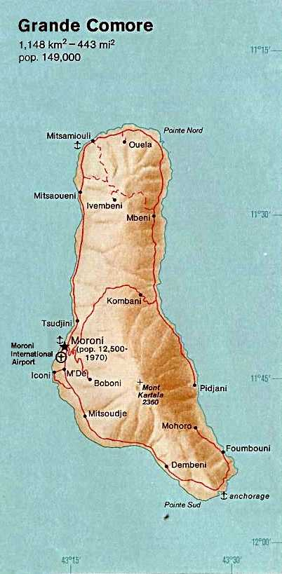 Grand Comore. From The Indian Ocean Atlas, CIA, 1976.